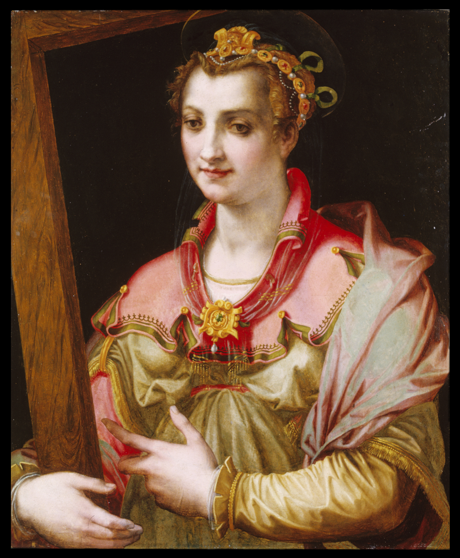 St. Helena (ca. 247-ca. 327) was the mother of Emperor Constantine the Great (ca. 288-337), who, according to tradition, christianized the Roman Empire. Helena is shown holding the True Cross (the cross on which Christ was crucified), which she is said to have discovered in Jerusalem. Her elaborate headdress and idealized, slightly masculine facial features reveal the artist's study of Michelangelo's so-called teste divine (divine heads), admired for their great beauty. Morandini and other Florentine artists of the later 16th century thought of Michelangelo as the greatest artist of all time, and they devotedly imitated his works.